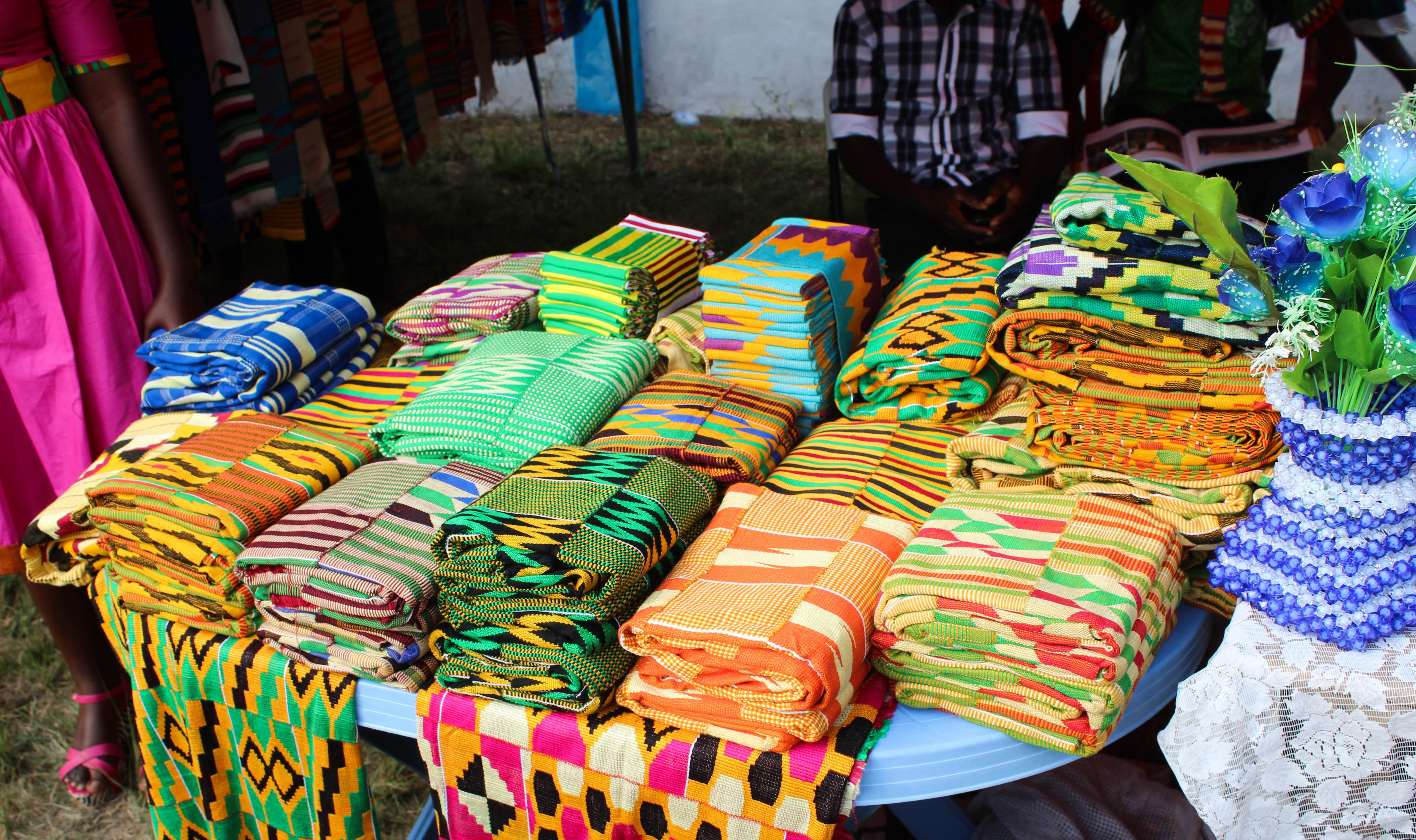 This is an image of Cultural Fashion or Adornment from Ghana